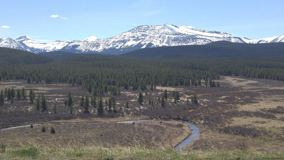 This is the view from the Forestry Trunk Road, Secondary Highway 734 after crossing Corkscrew Mountain